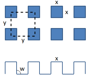 Pillars showing unit cell perimter per area